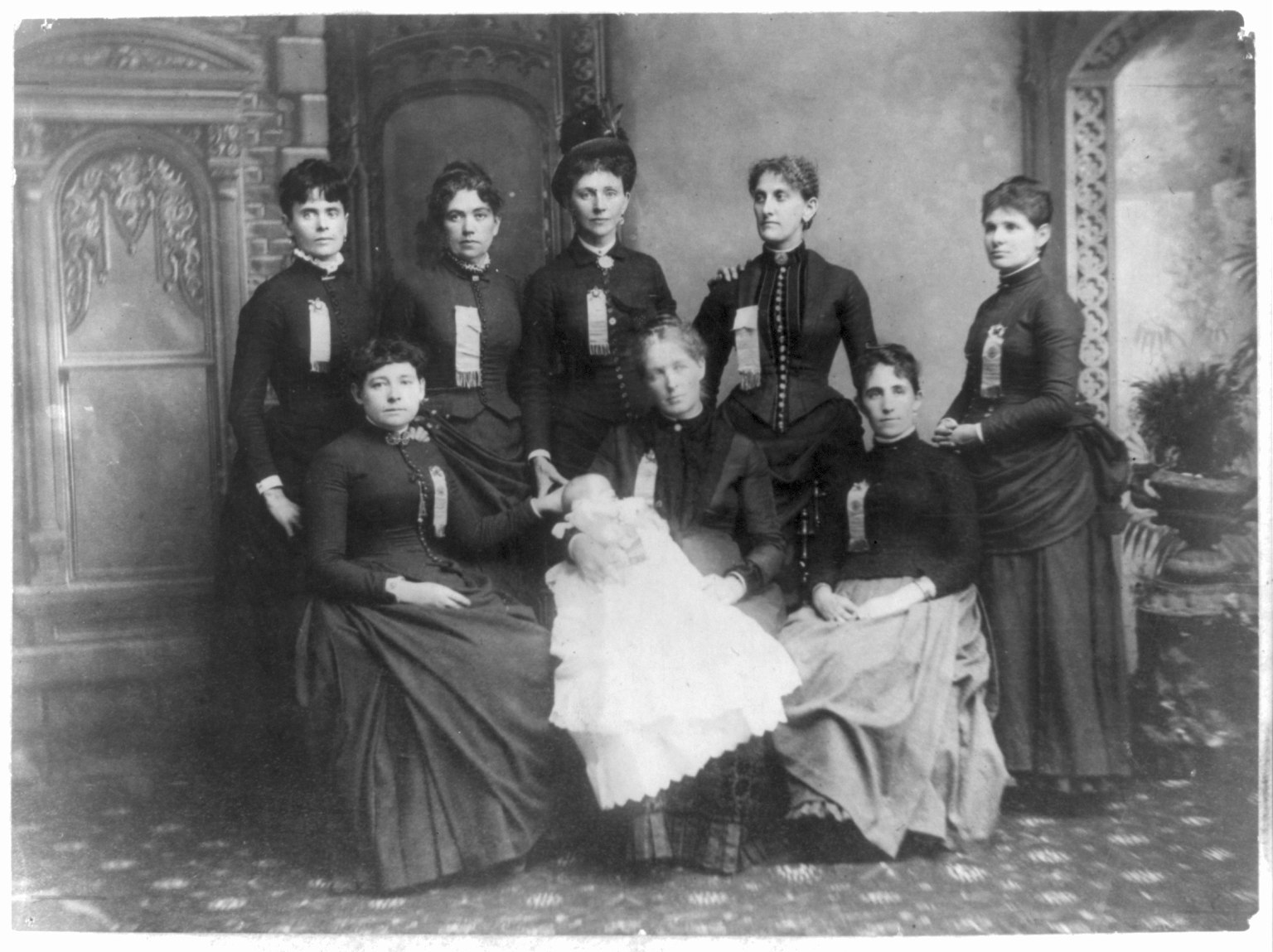 Title: Women delegates to the 1886 convention of the Knights of Labor Abstract/medium: 1 photographic print.